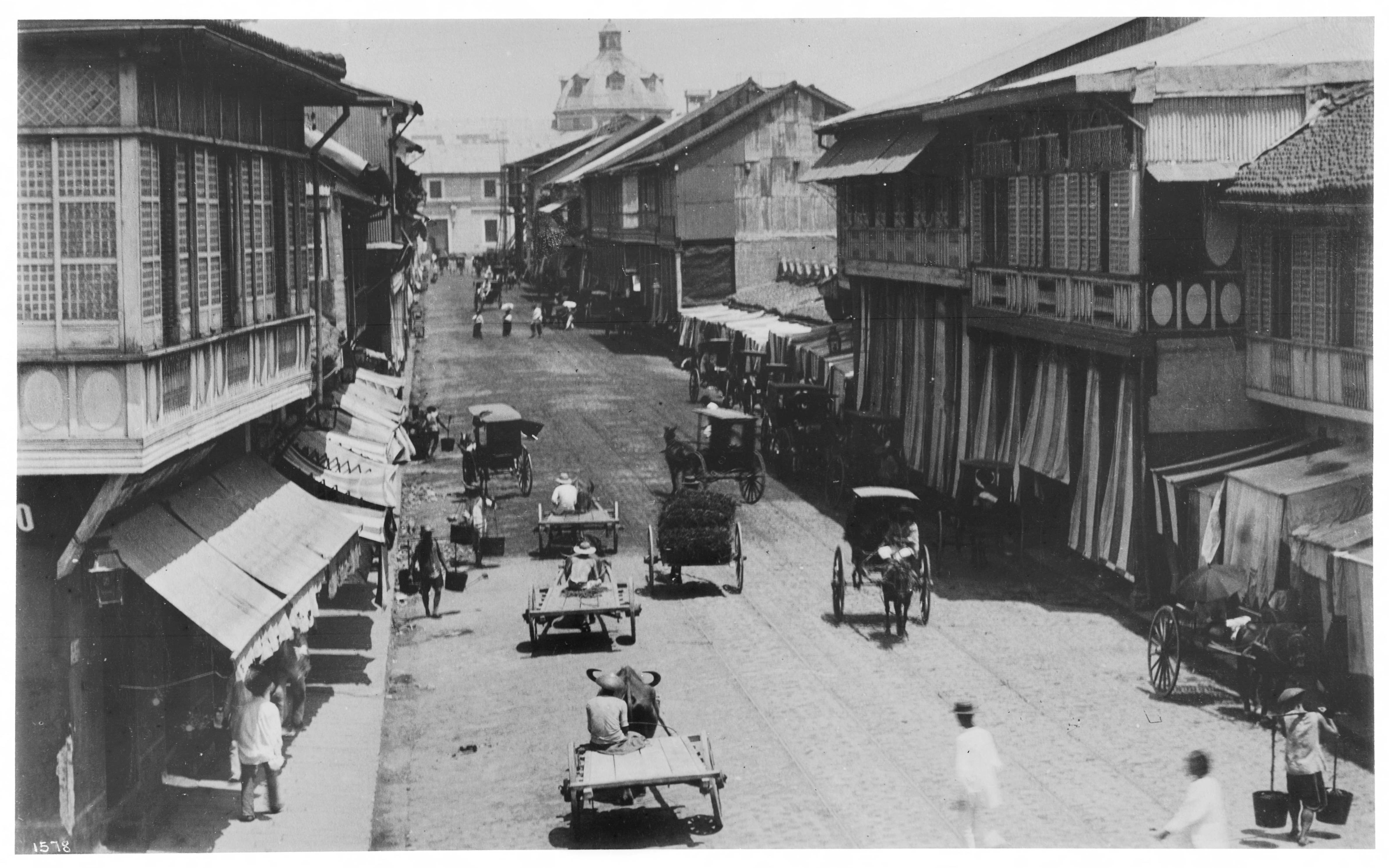 Street scene in Manila, Philippines, ca.1900 Photograph of a street scene in Manila, Philippines, ca.1900. Two-story buildings line both sides of the street. About 10 horse- or ox-drawn vehicles are in the street. Awnings shade the sidewalk and pedestrians below on many of the buildings. A domed tower is visible in the background. Call number: CHS-1578 Filename: CHS-1578 Coverage date: circa 1900 Part of collection: California Historical Society Collection, 1860-1960 Type: images Part of subcollection: Title Insurance and Trust, and C.C. Pierce Photography Collection, 1860-1960 Repository name: USC Libraries Special Collections Format: glass plate negatives Microfiche number: 1-226- Archival file: chs_Volume92/CHS-1578.tiff Geographic subject (city or populated place): Manila Repository address: Doheny Memorial Library, Los Angeles, CA 90089-0189 Subject (adlf): buildings Geographic subject (country): Philippines Format (aacr2): 2 photographs : glass photonegative, photoprint, b&w ; 17 x 22 cm. Rights: Digitally reproduced by the USC Digital Library; From the California Historical Society Collection at the University of Southern California Project: USC Accession number: 1578 Repository Contributing entity: California Historical Society Date created: circa 1900 Publisher (of the digital version): University of Southern California. Libraries Format (aat): photographic prints; photographs Legacy record ID: chs-m15104; USC-1-1-1-14168 Access conditions: Send requests to address or e-mail given. Phone (213) 821-2366; fax (213) 740-2343. Subject (file heading): Phillipines Subject (lcsh): Streets; Buildings; Transportation